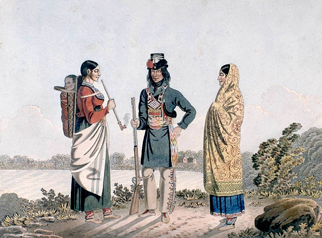 A Métis man and his two wives, circa 1825-1826A halfcast and his two wives, 1825-1826, Mikan # 2835810, Library and Archives Canada, Acc. No. 1973-84-1